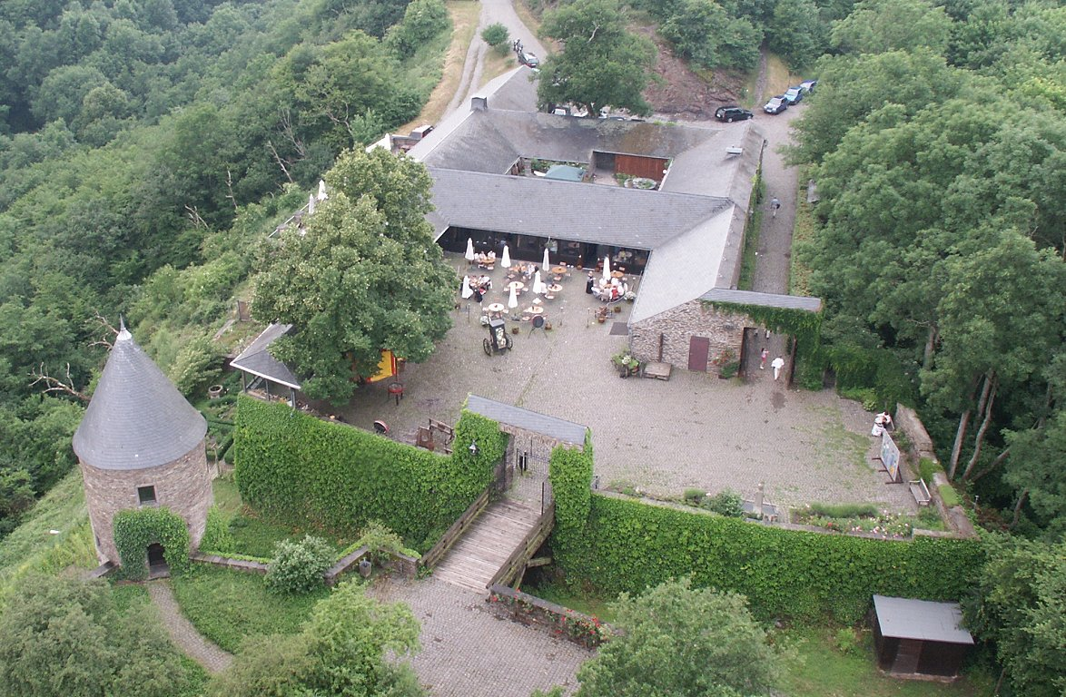 Burg Pyrmont - Vorburg